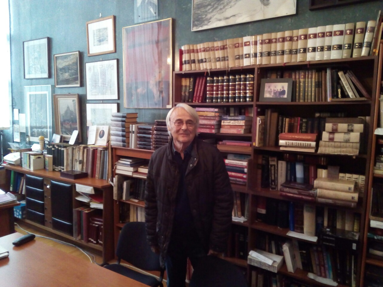 Dragomir Dale Ćulafić (04.12.2018.) in public library "Laza Kostić", Serbia, Belgrade, Čukarica Srpski (latinica): Dragomir Dale Ćulafić (04.12.2018) u biblioteci "Laza Kostić", Čukarica